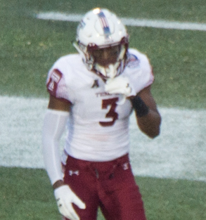 Wake Forest running back Cade Carney, #36, runs for a touchdown during the 2016 Military Bowl at the Navy – Marine Corps Memorial Stadium in Annapolis, Md., Dec. 27, 2016. The Wake Forest Demon Deacons defeated the Temple Owls 34-26. (DoD Photo by U.S. Army Sgt. James K. McCann)